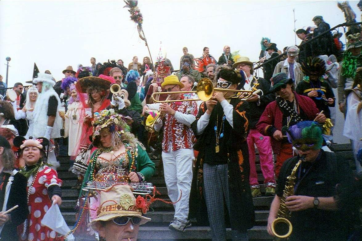 Masked trombonist, musicians, Mardi Gras Day 2003, French Quarter, New Orleans. Infrogmation photo.